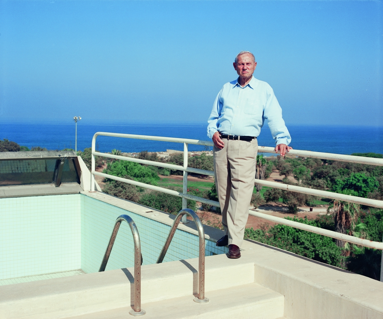 Art of Israel